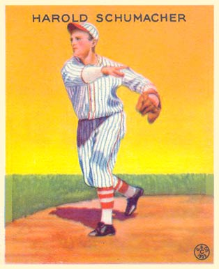 1933 Goudey baseball card of Harold "Hal" Schumacher of the New York Giants #129. PD-not-renewed.